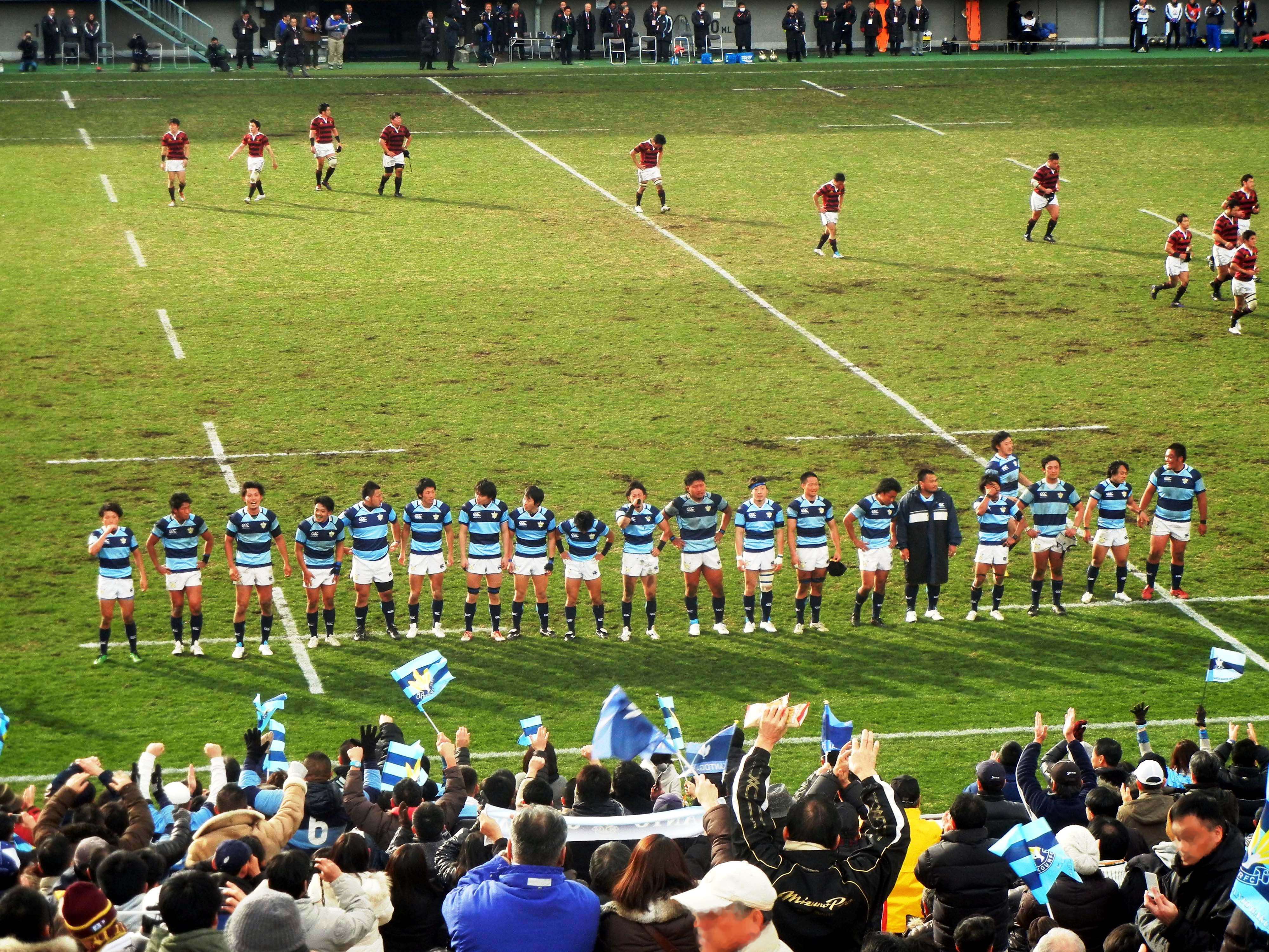 Kanto Gakuin University Rugby Football Club Players